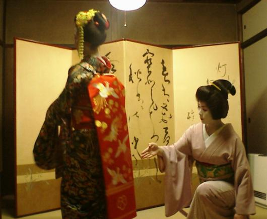 Gion Kouta: A maiko and a geisha dance to Gion Kouta, a traditional Gion Geisha song.